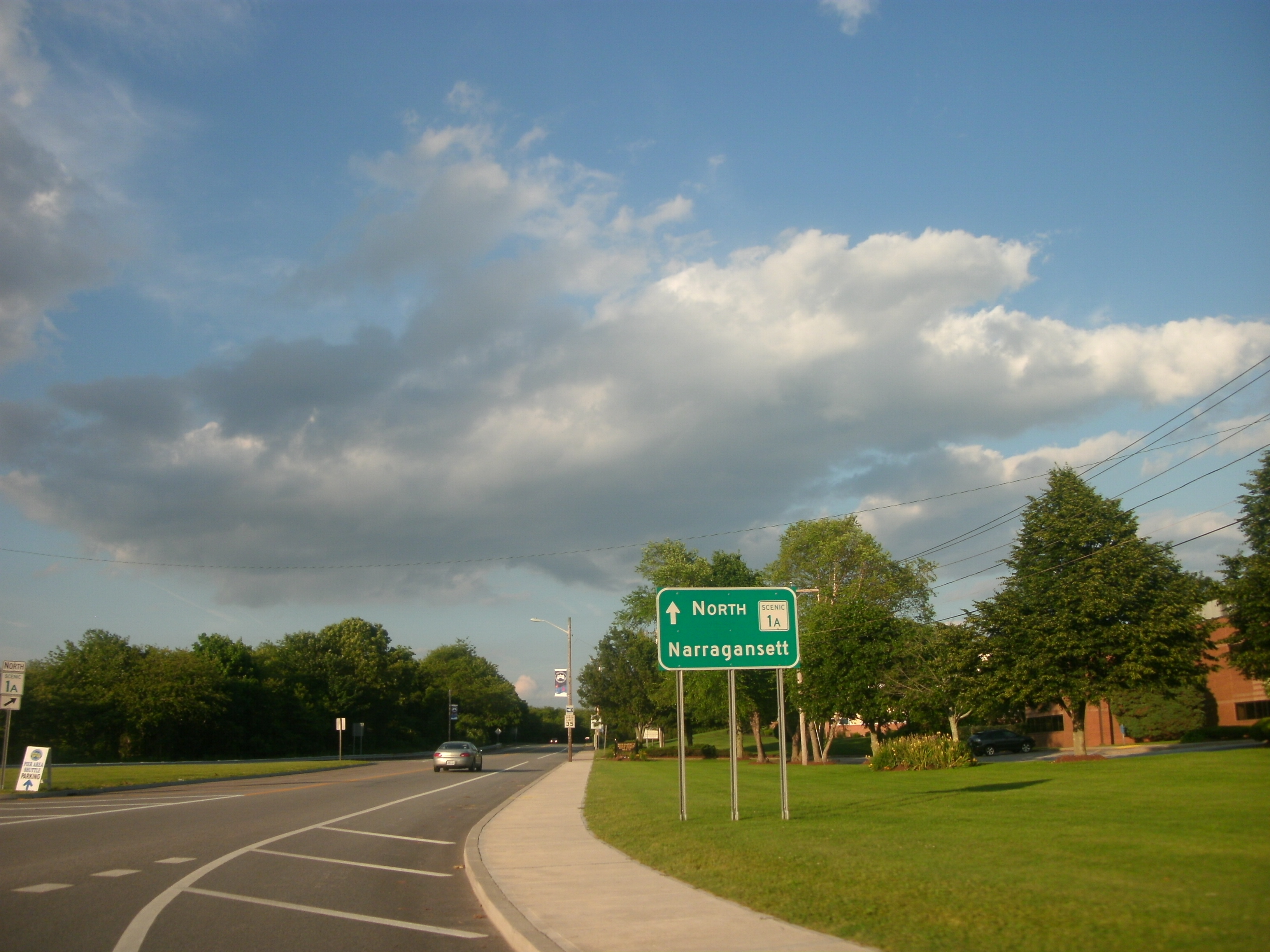 Rhode Island Route 1A Scenic at the junction with Rhode Island Route 108 in Naragansett, Rhode Island.